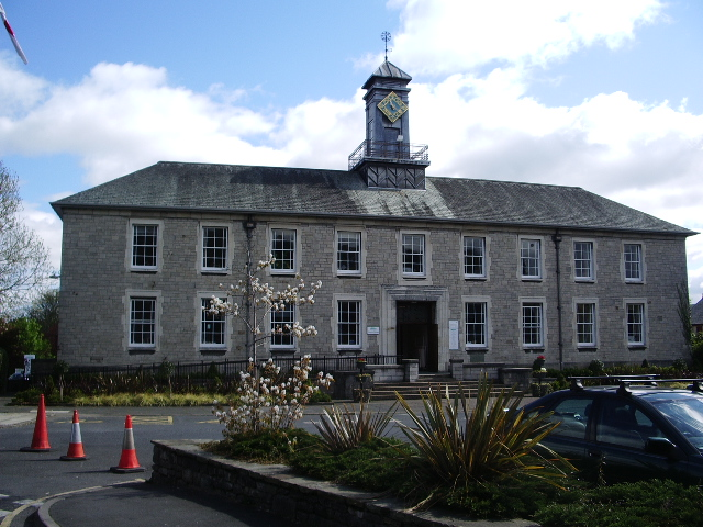 Council Offices. Can be seen in the Hetty Wainthropp Investigates episode "Helping Hansi" (1998).